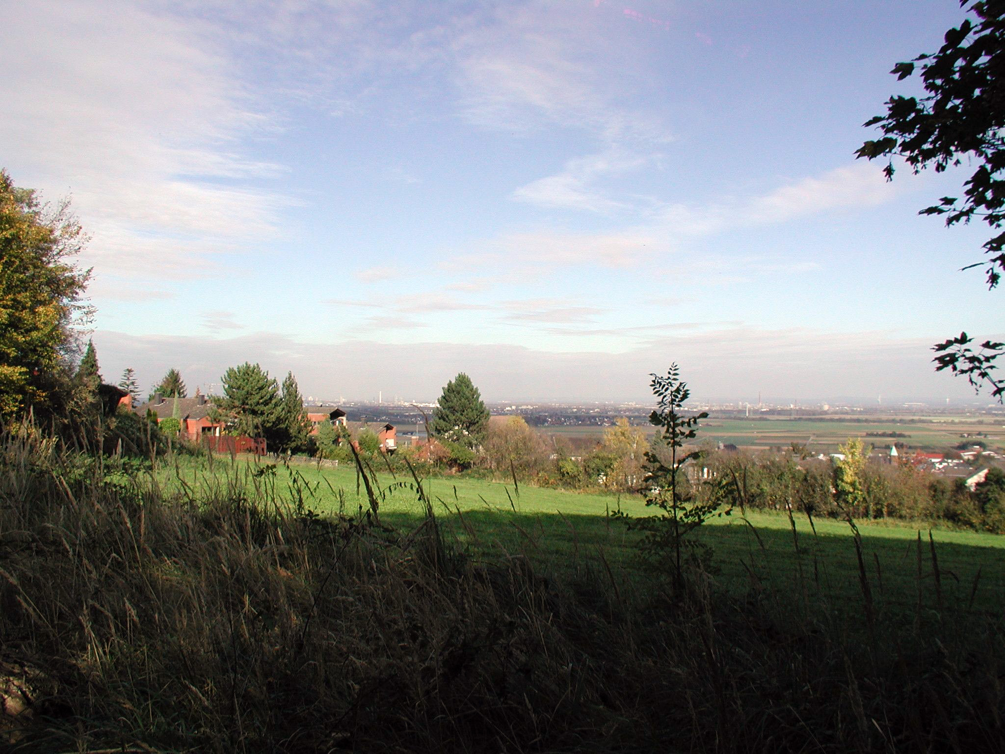 View from ridge of foreland in Hemmerich (Bornheim), North Rhine-Westphalia